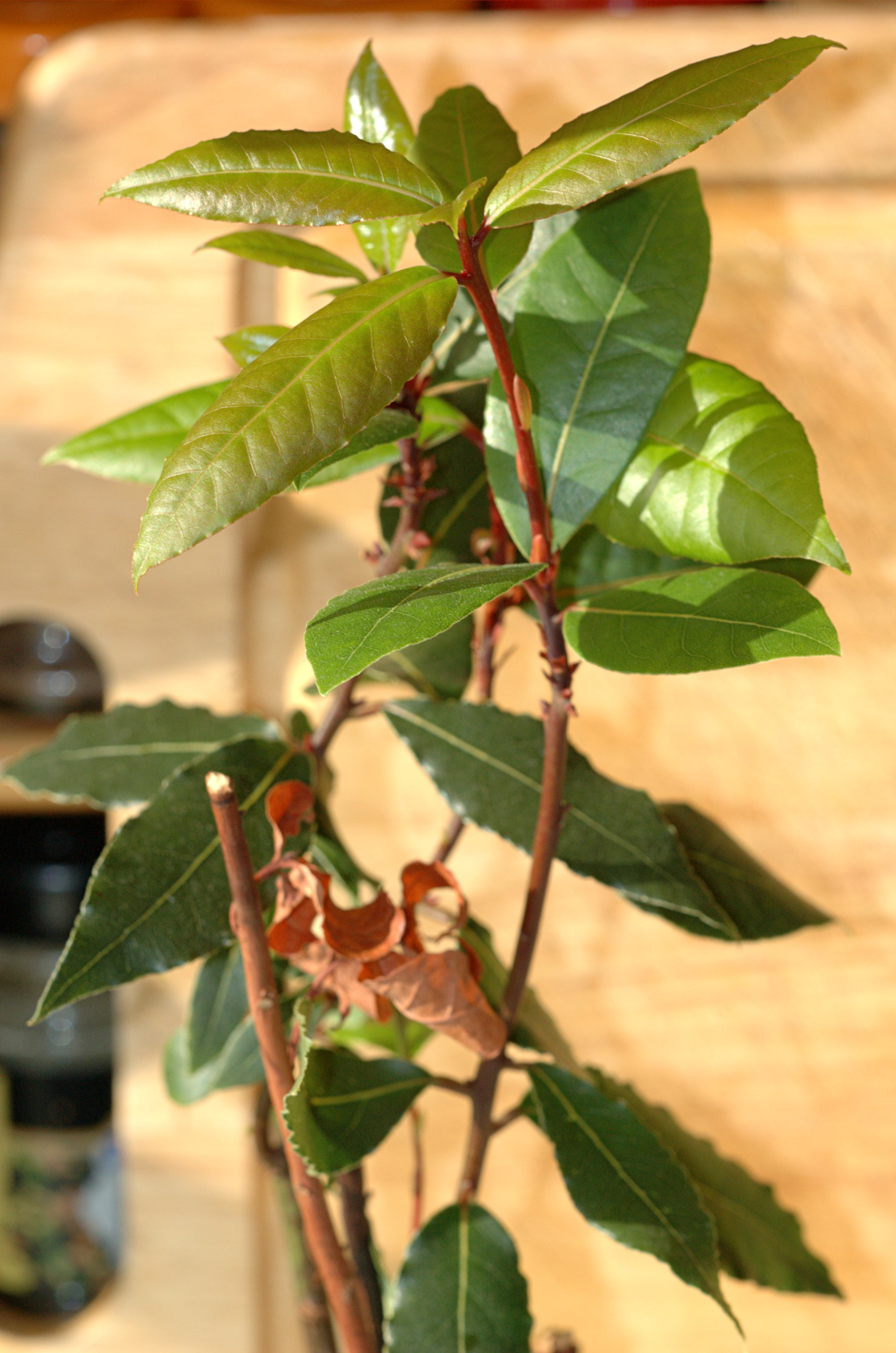 Laurus nobilis, Bay Laurel, family Lauraceae, grown in a kitchen for bay leaf.